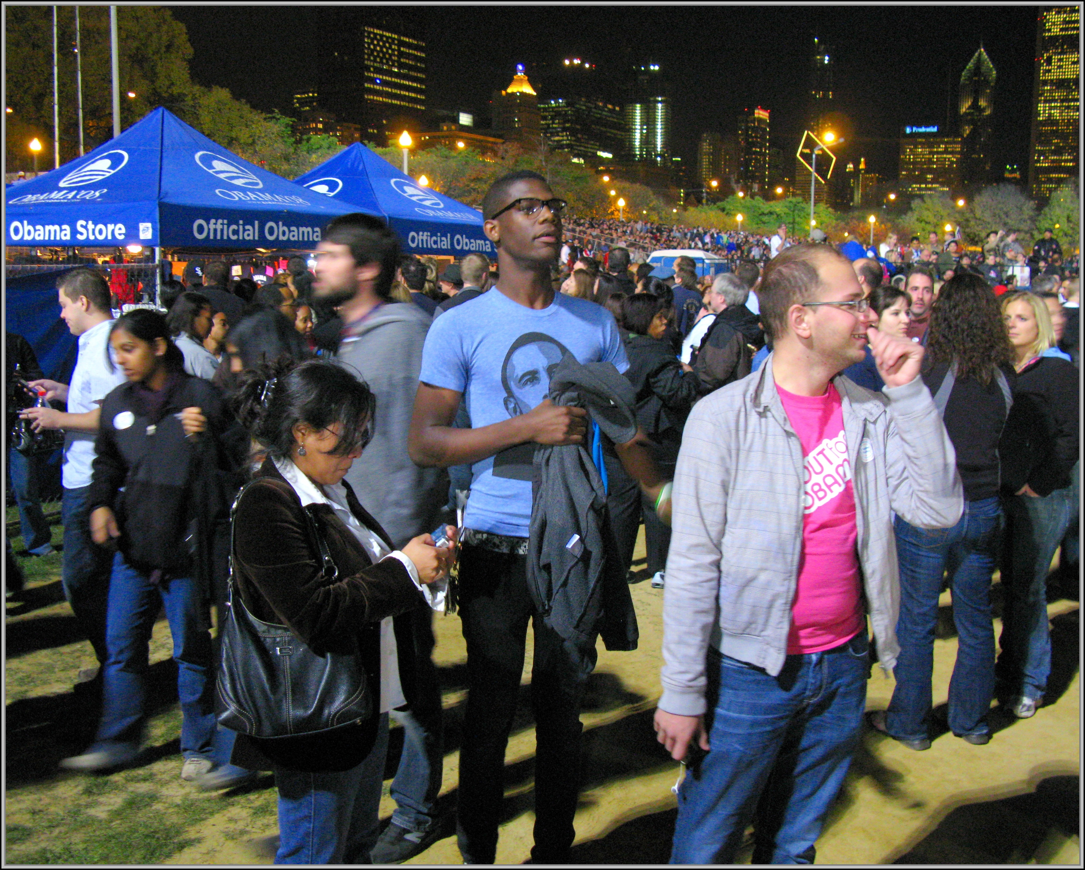 Election night in Grant Park Chicago November 4, 2008